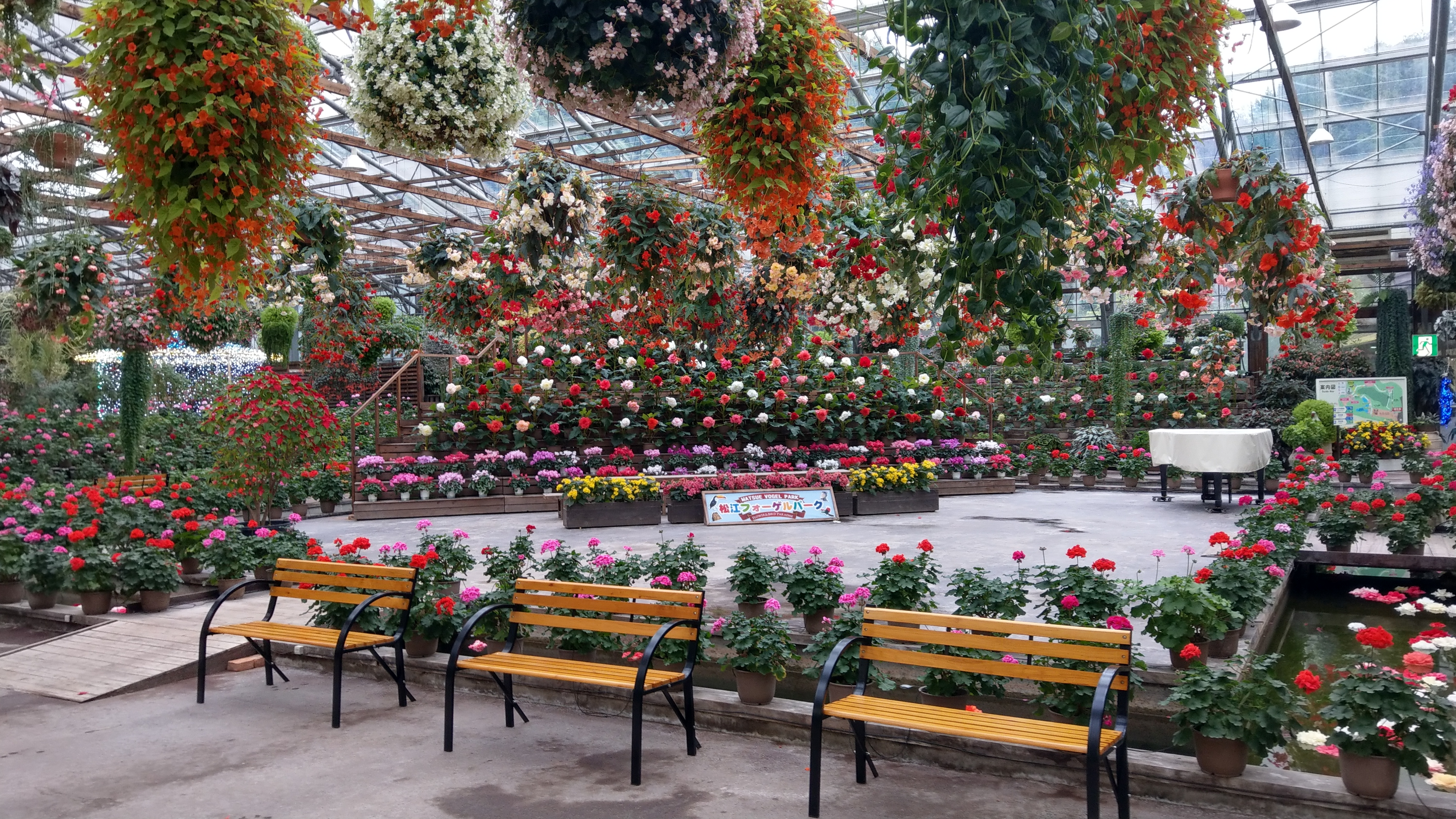 Center Greenhouse of Matsue Vogel Park in Matsue City, Shimane Prefecture, Japan.